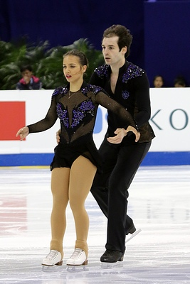 Amani Fancy and Christopher Boyadji at the 2015 World Championships - FS